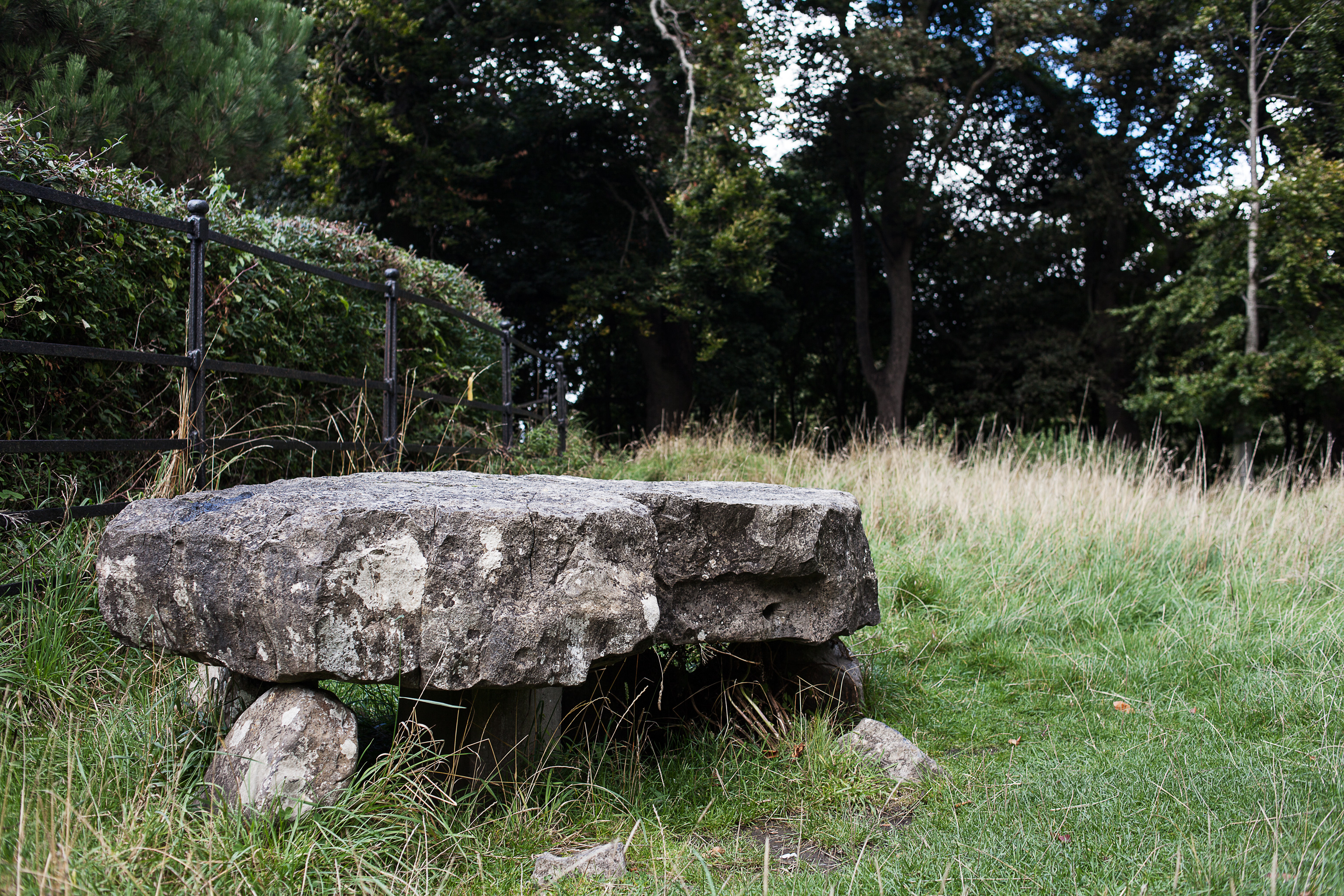 Knockmaroon Kist